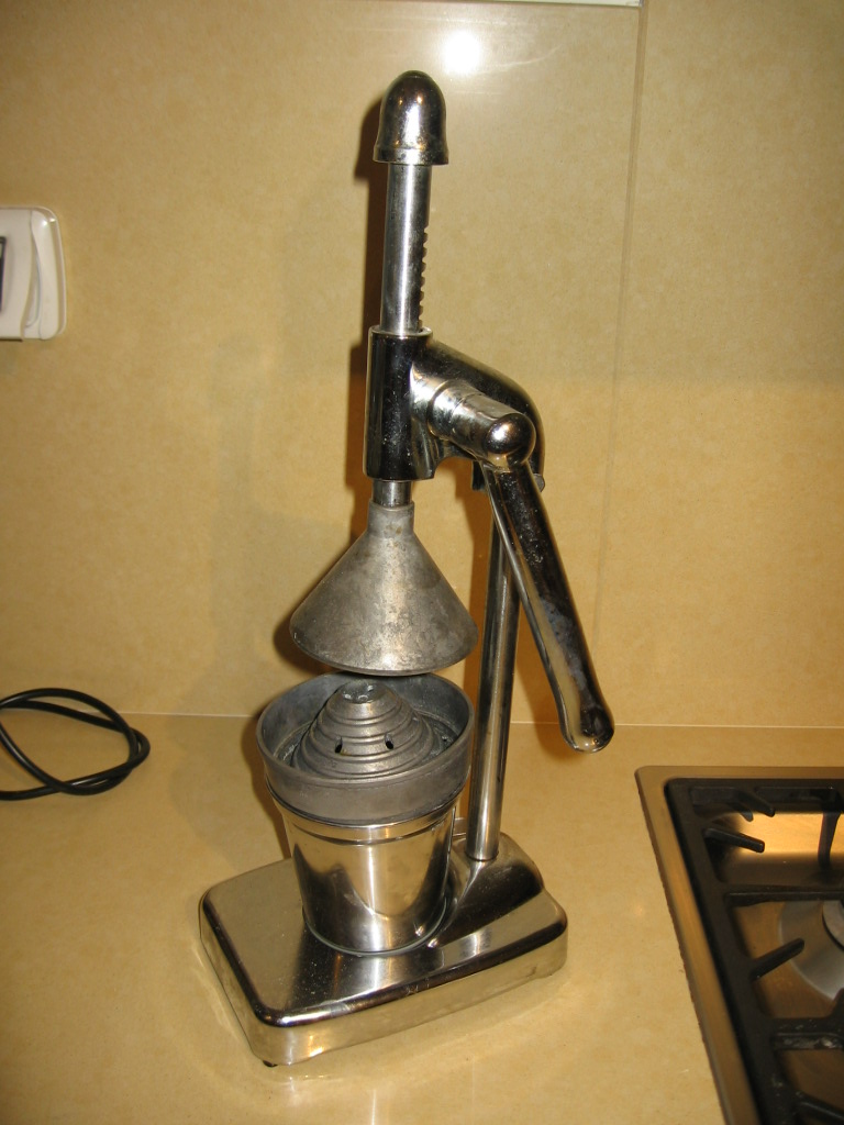 Juicer